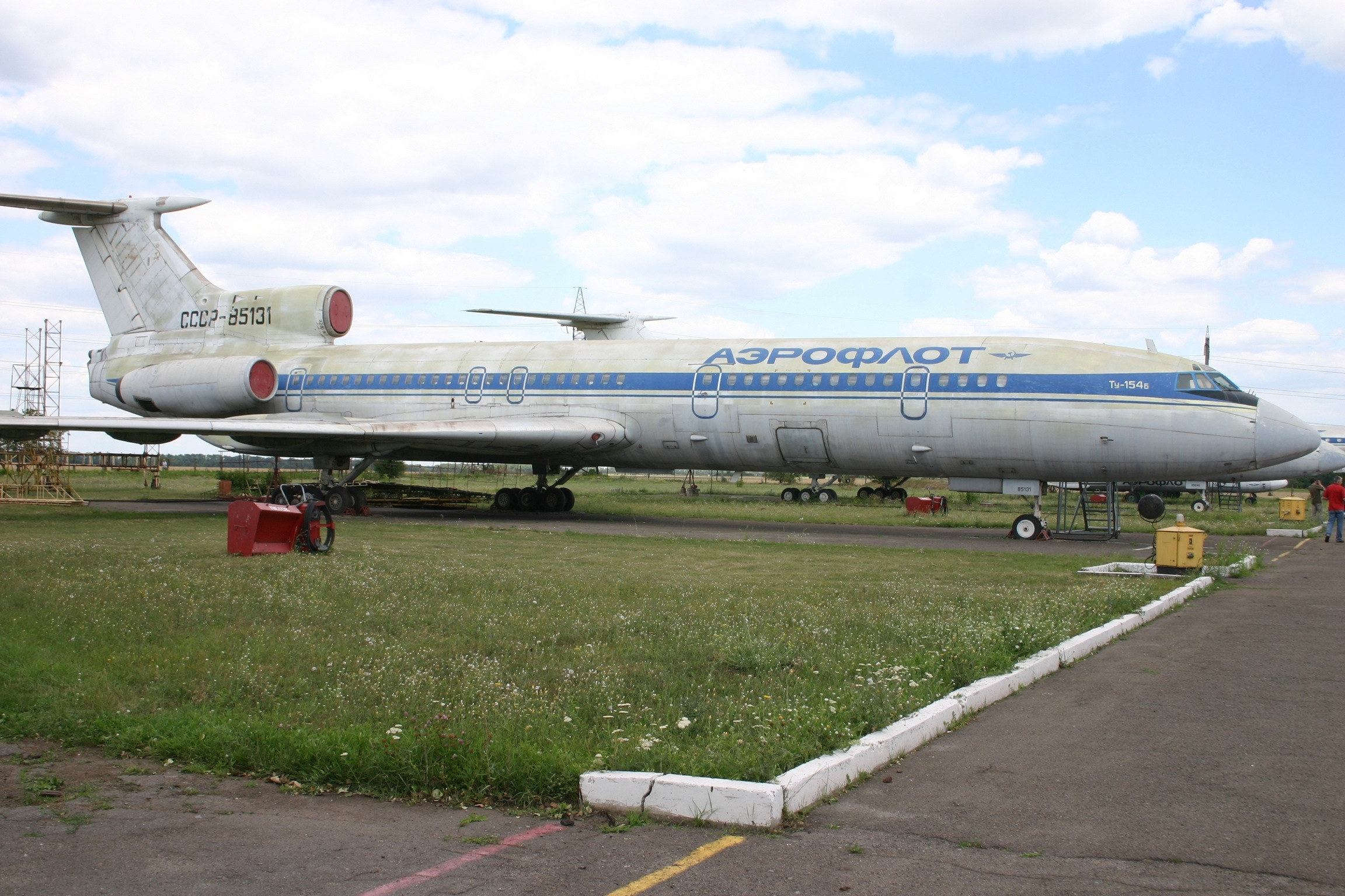 At At Kriviy Rig Technical School